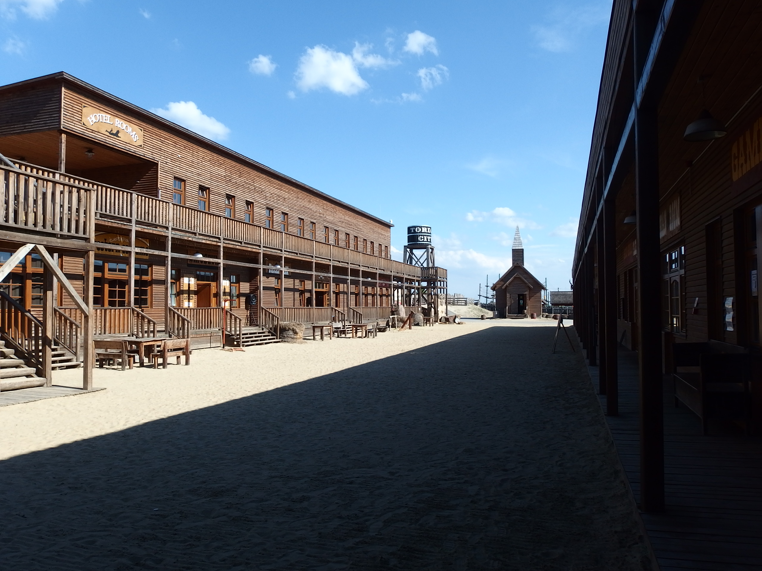 The Western village in Tordas, Hungary